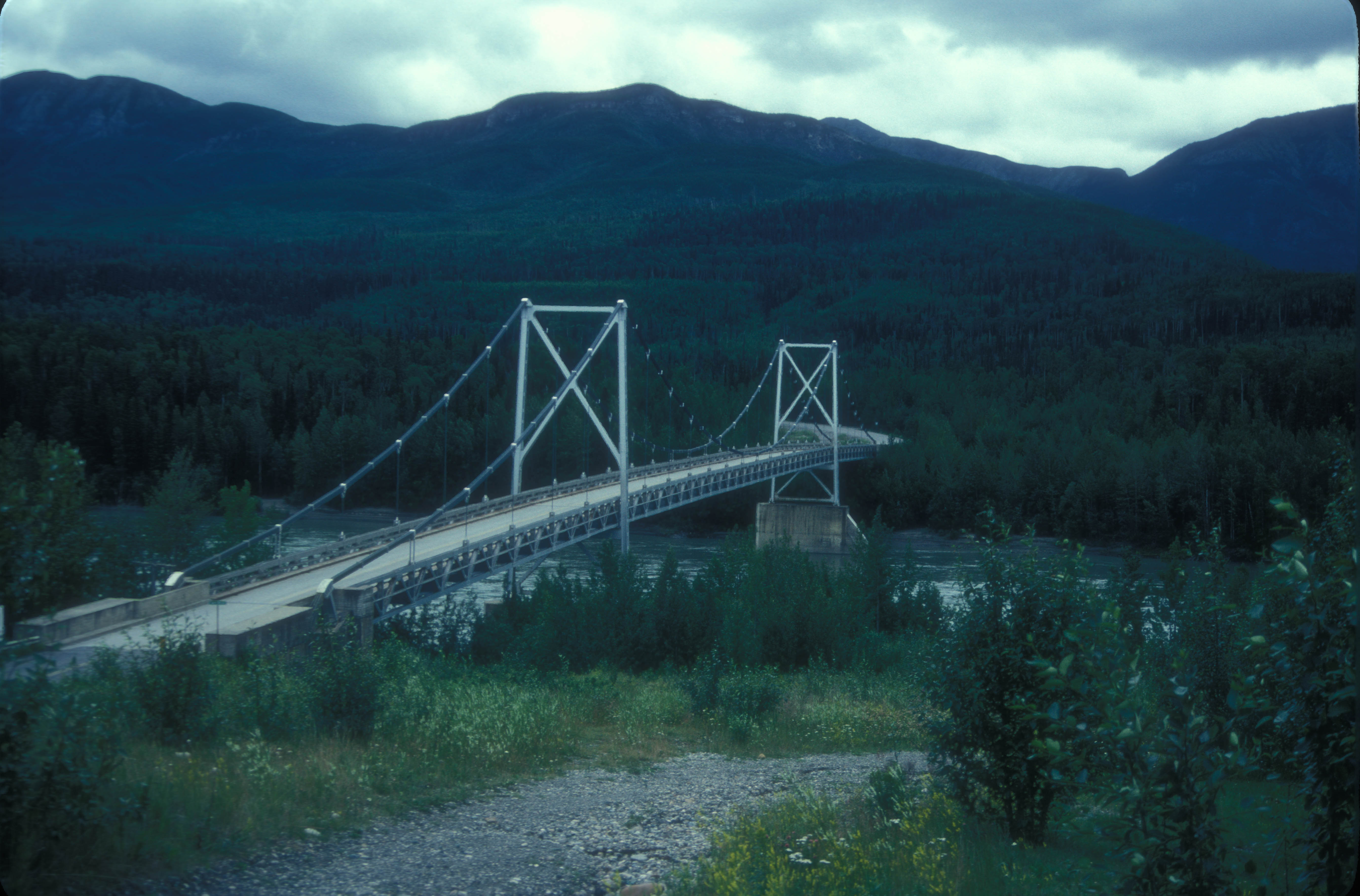 LIARD RIVER BRIDGE - ONLY SUSPENSION BRIDGE ON THE ALASKAN HIGHWAY; BUILT IN 1944